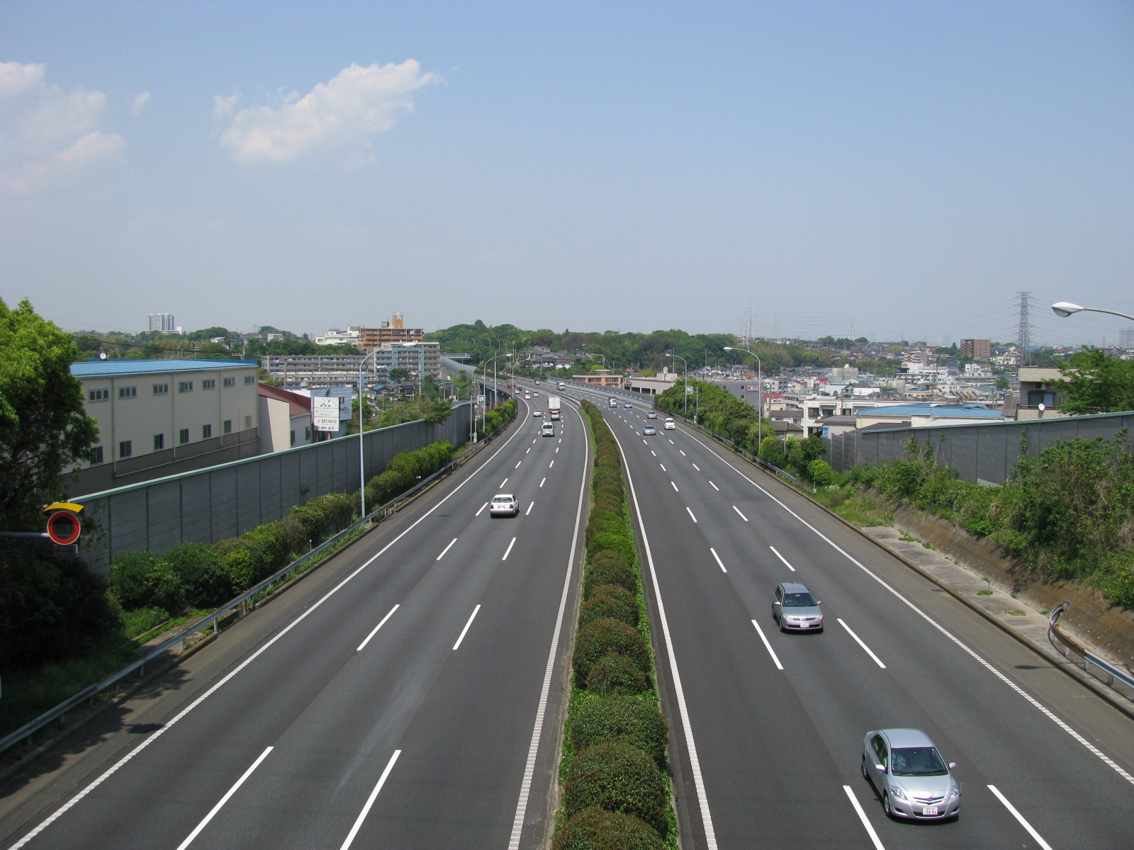 Route 466 (Japan). Road connecting Tokyo and Yokohama.